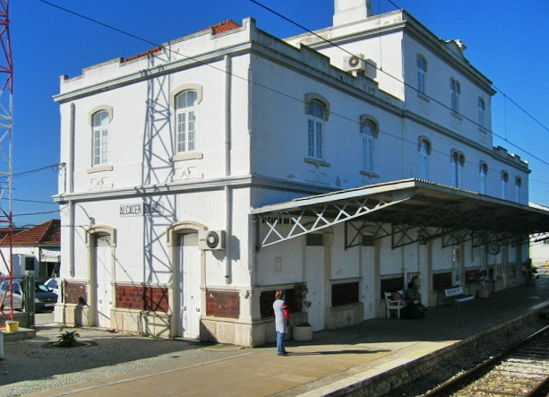 Railway Station of Alcacer do Sal